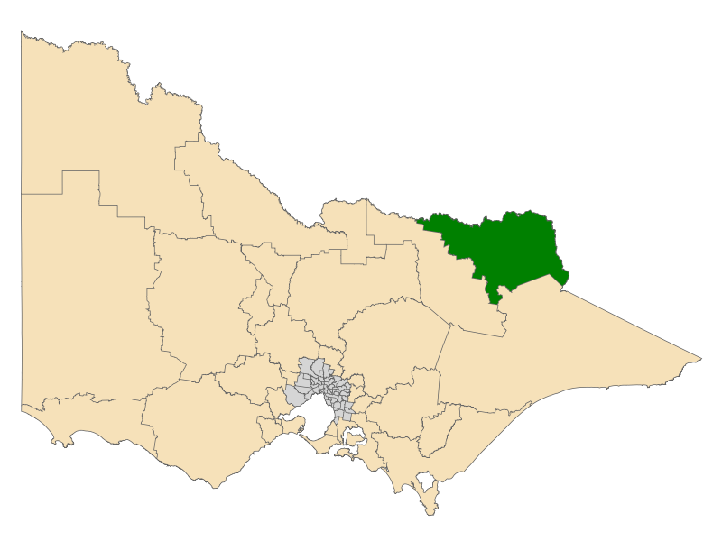 Location of the Electoral District of Benambra (dark green) in the state of Victoria, Australia. These boundaries were used for the Victorian state election on 29 November 2014.